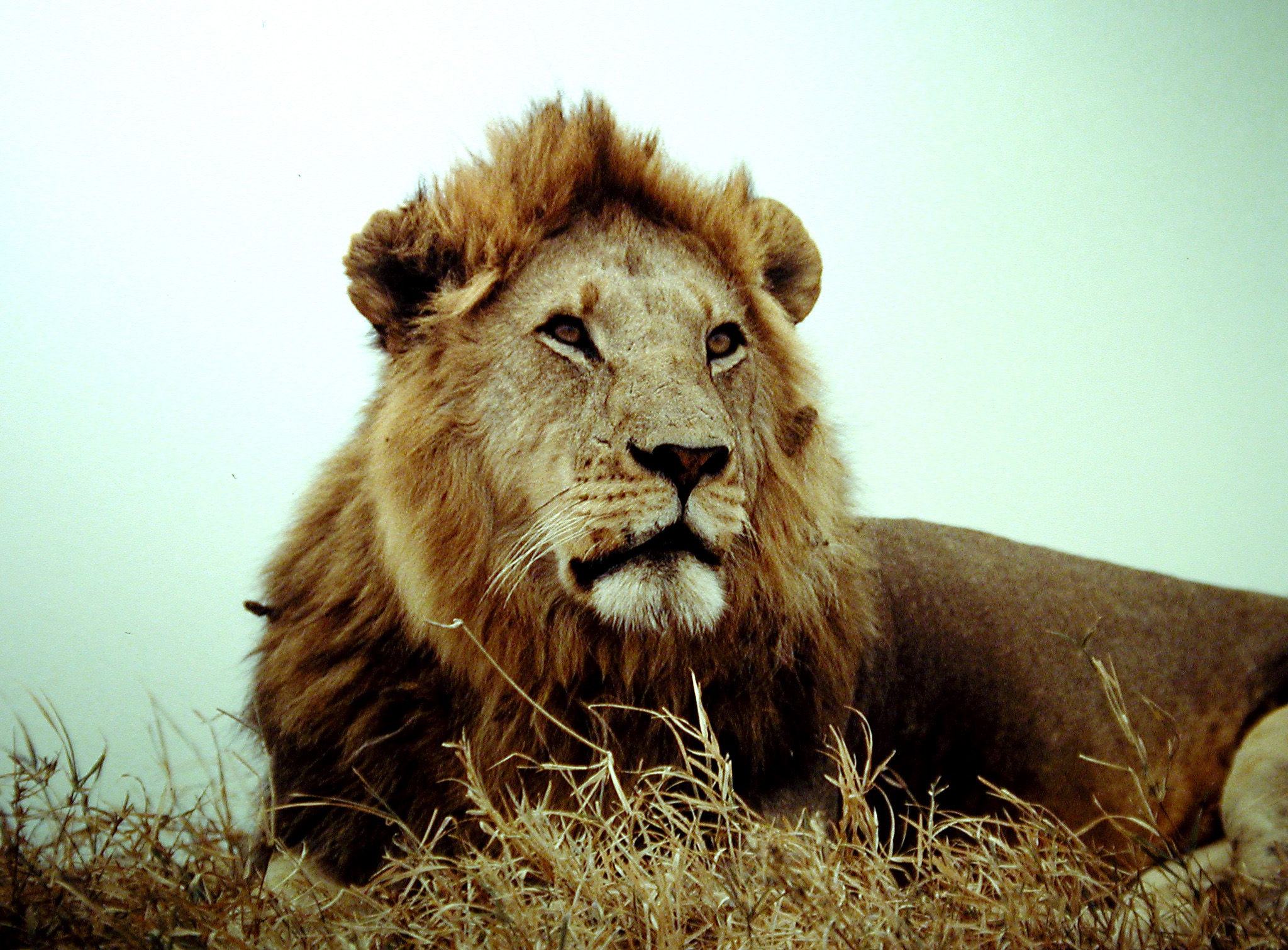 An old lion of the Serengeti.